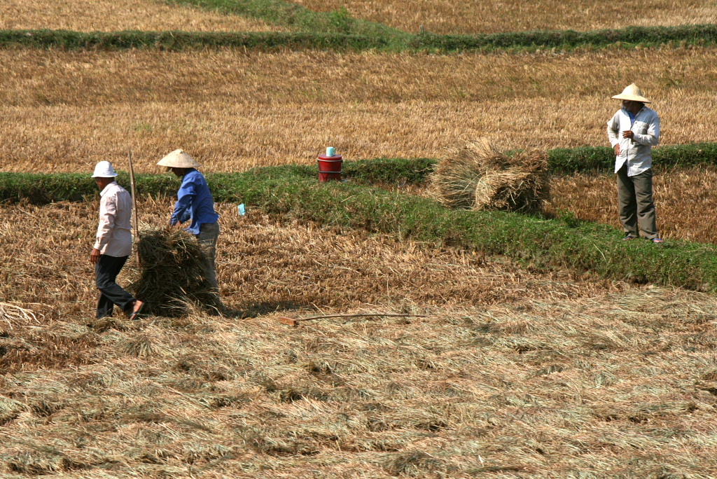 farmers in Quang Ngai Province, Vietnam